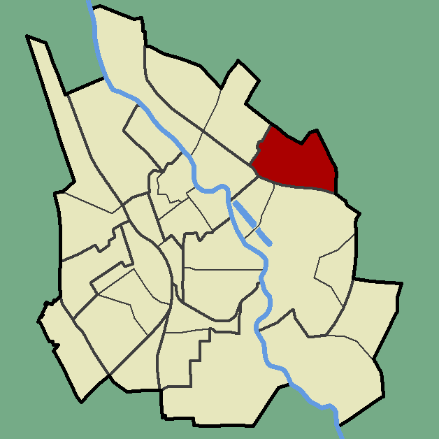 Locator map of Jaamamõisa, Tartu, Estonia.